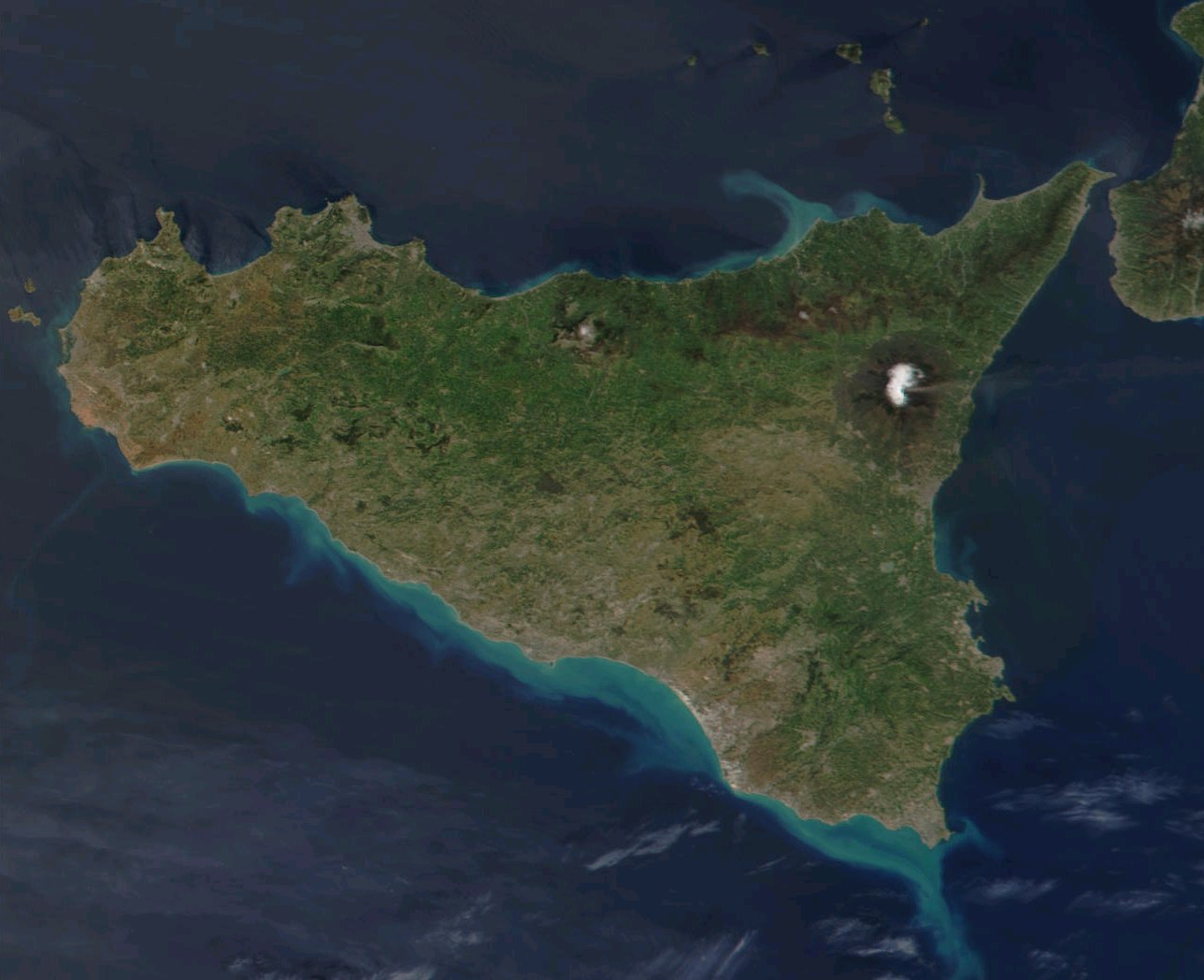 Satellite image of Sicily This true-color scene of a smoke plume streaming eastward from snow-capped Mount Etna was acquired on April 7, 2002, by the Moderate-resolution Imaging Spectroradiometer (MODIS), aboard NASA's Terra satellite. Mount Etna, towering above Catania, Sicily's second largest city, has one of the world's longest documented records of historical volcanism, dating back to 1500 BC. Historical lava flows cover much of the surface of this massive basaltic stratovolcano, the highest and most voluminous in Italy.